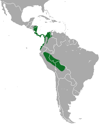 Hoffmann's Two-toed Sloth (Choloepus hoffmanni) range